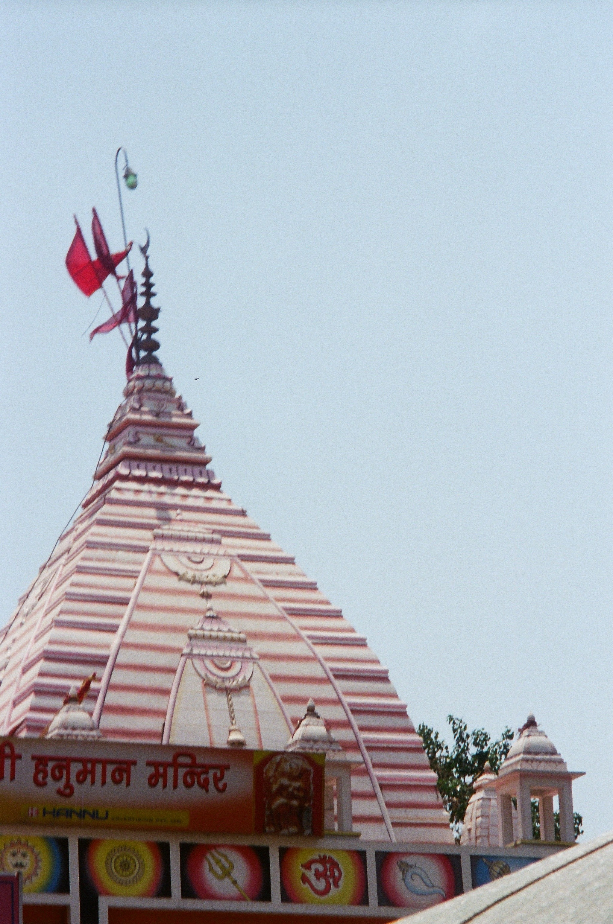 Hanuman Mandir - Crescent on the spire